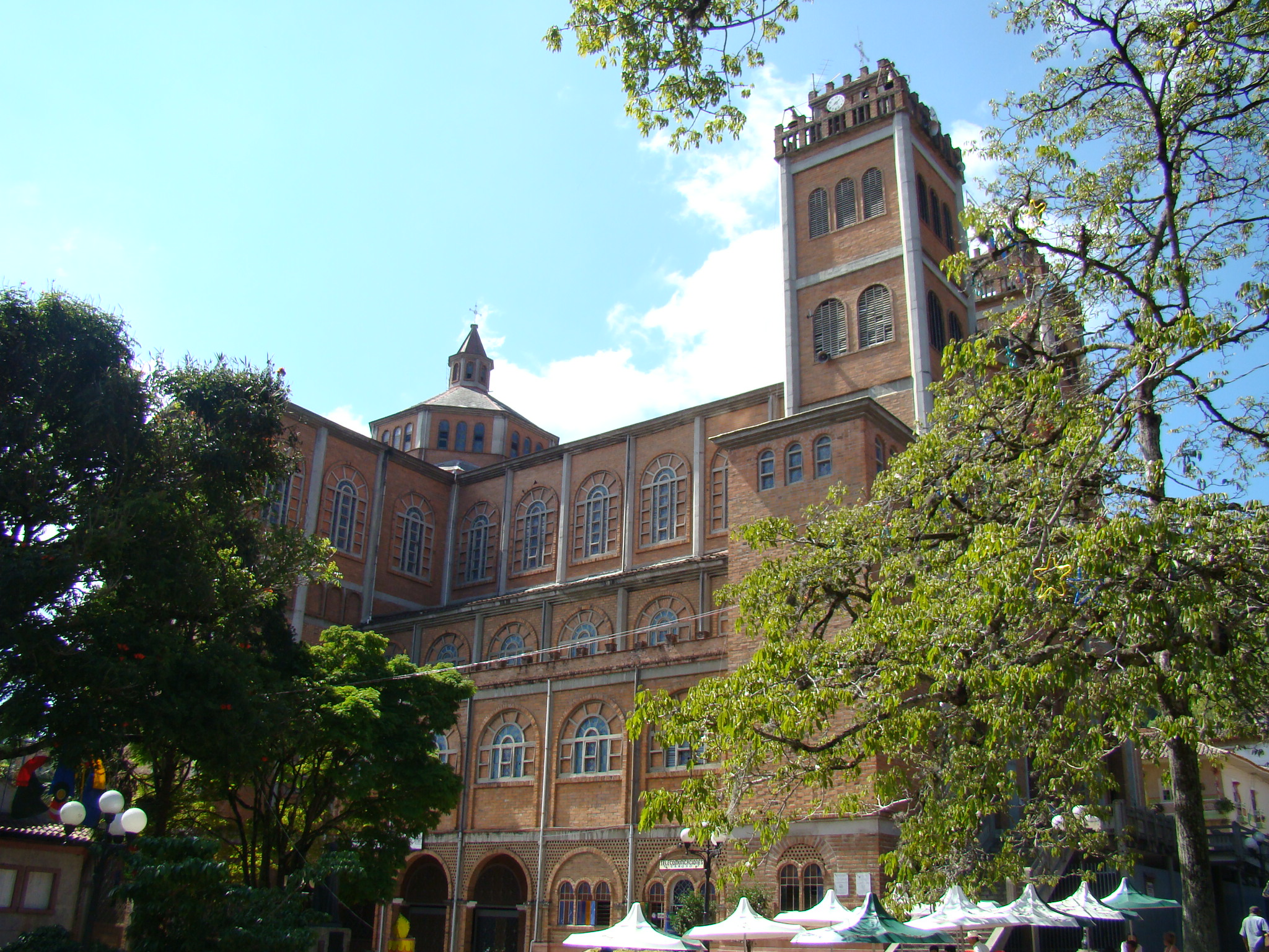 Cathedral of Jerico (Colombia) Cfr.